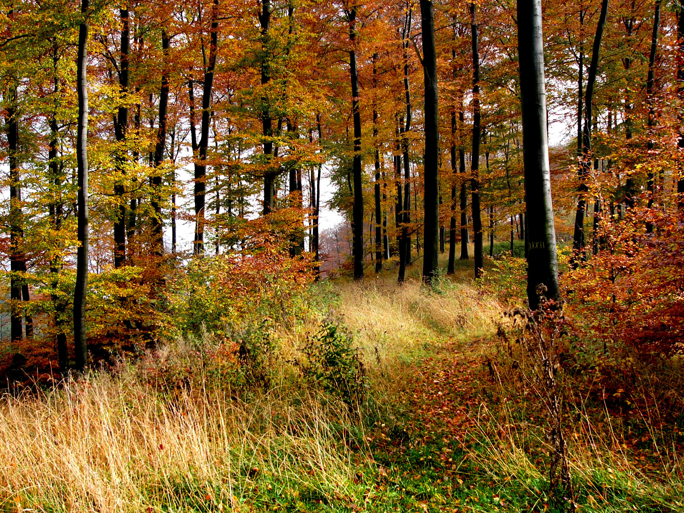 Fall in Teutoburg Forest, Germany